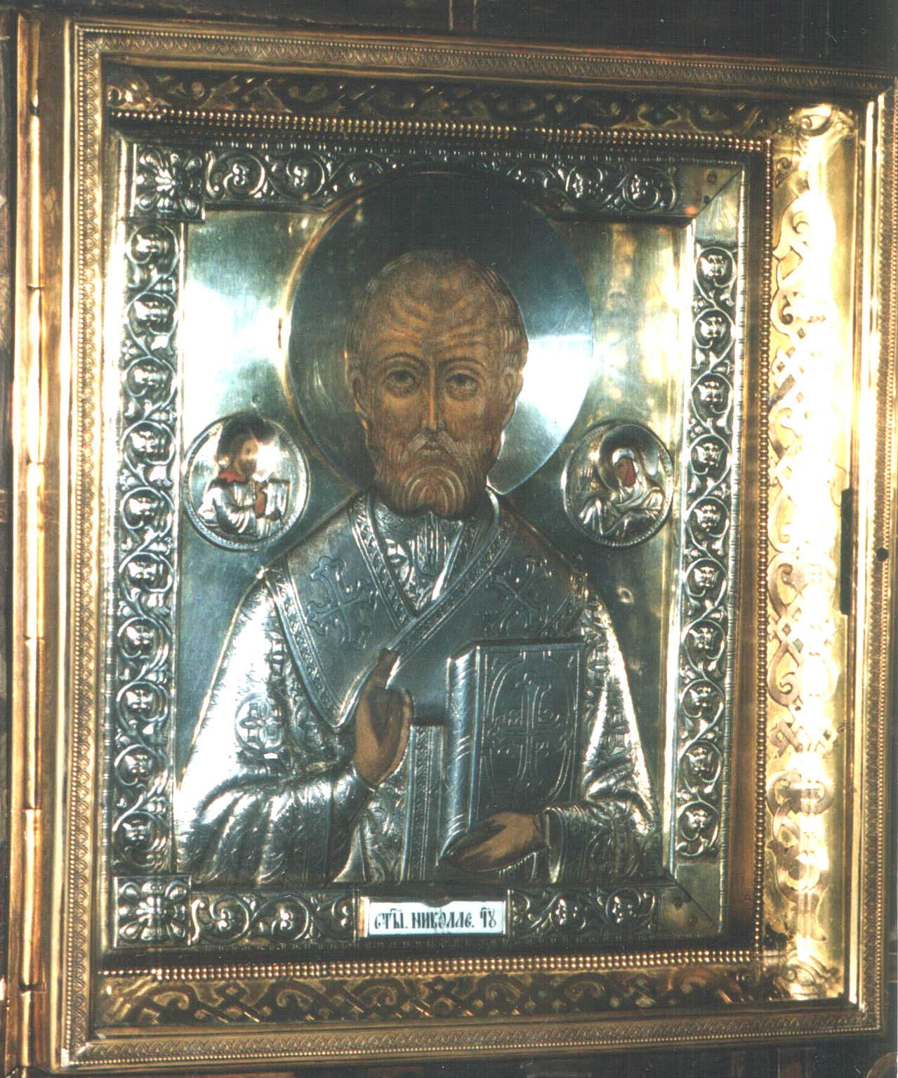 Kolpino (Russia), .